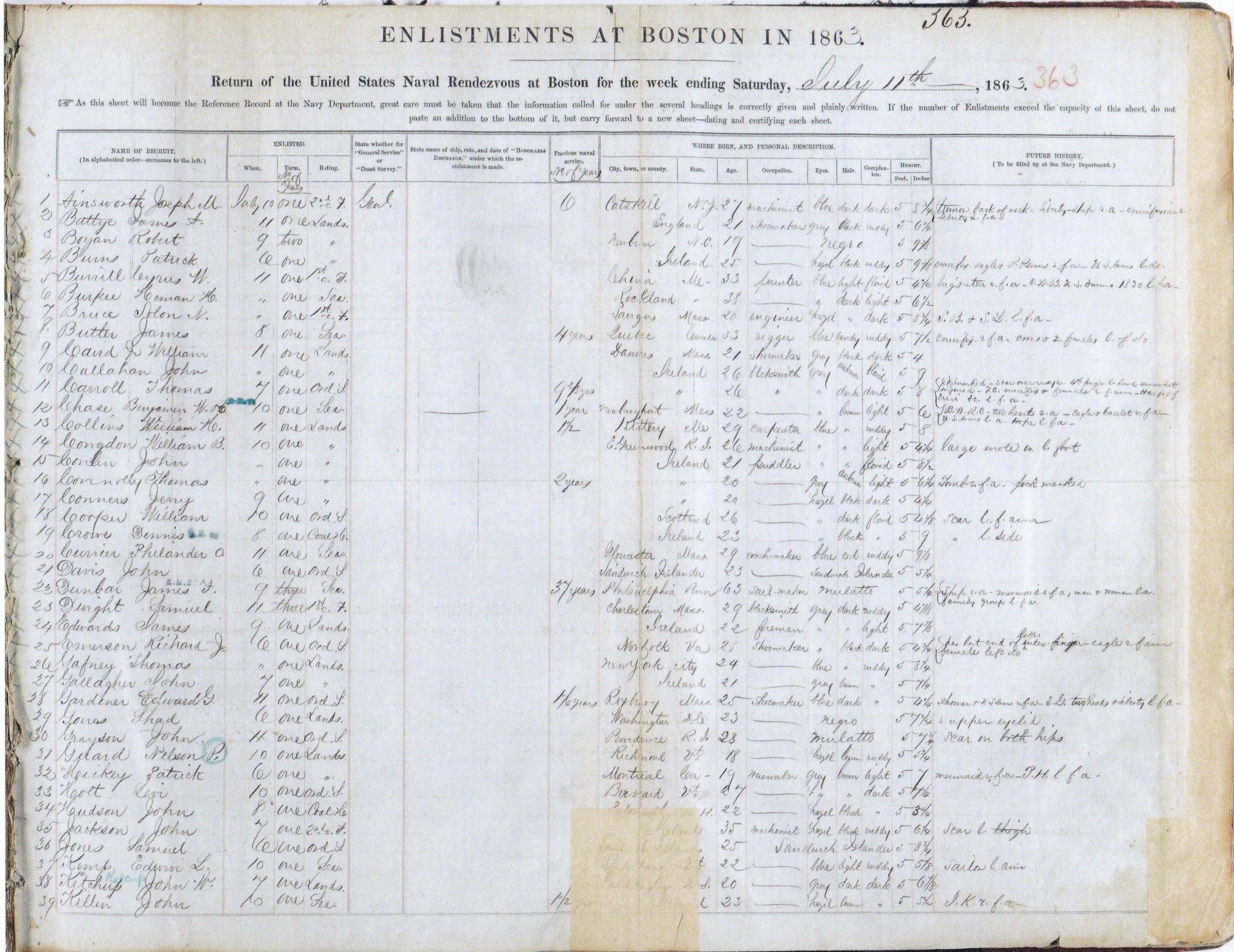 This document reflects naval enlistments at Boston, for the week ending 11 July 1863. Recruits no.21 John Davis, Ordinary Seaman and no. 36 Samuel Jones, Ordinary Seaman are both enumerated as natives of the Sandwich Islands (Hawaii) and described as "Sandwich Islander" Both men enlisted as "Ordinary Seaman" accorded to those with some seagoing experience.